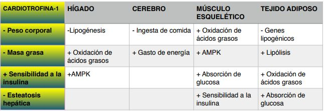 Efectos biológicos de la cardiotrofina 1